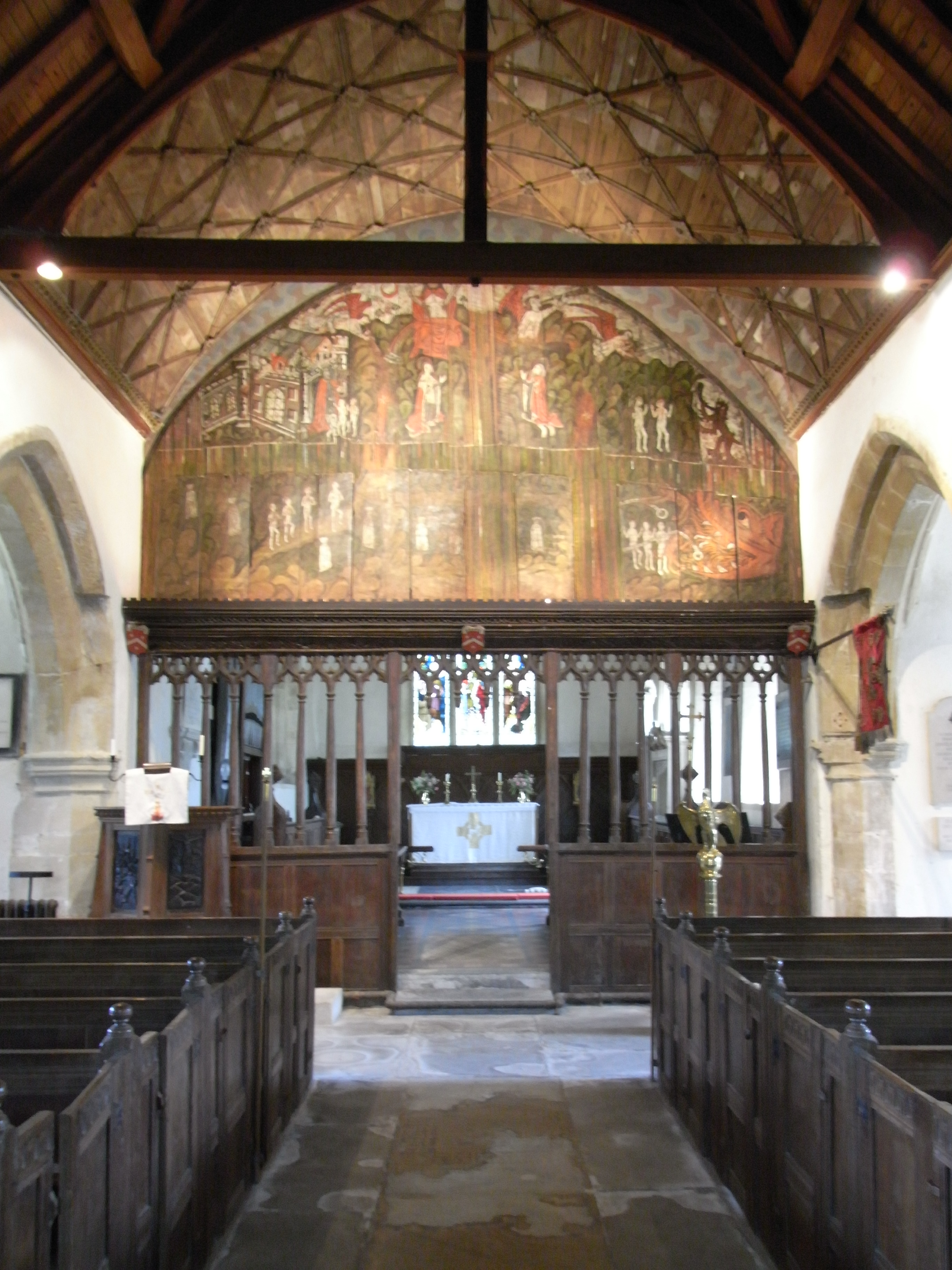 Doom Board, 14th.c., above rood screen, Dauntsey Church, Wiltshire.